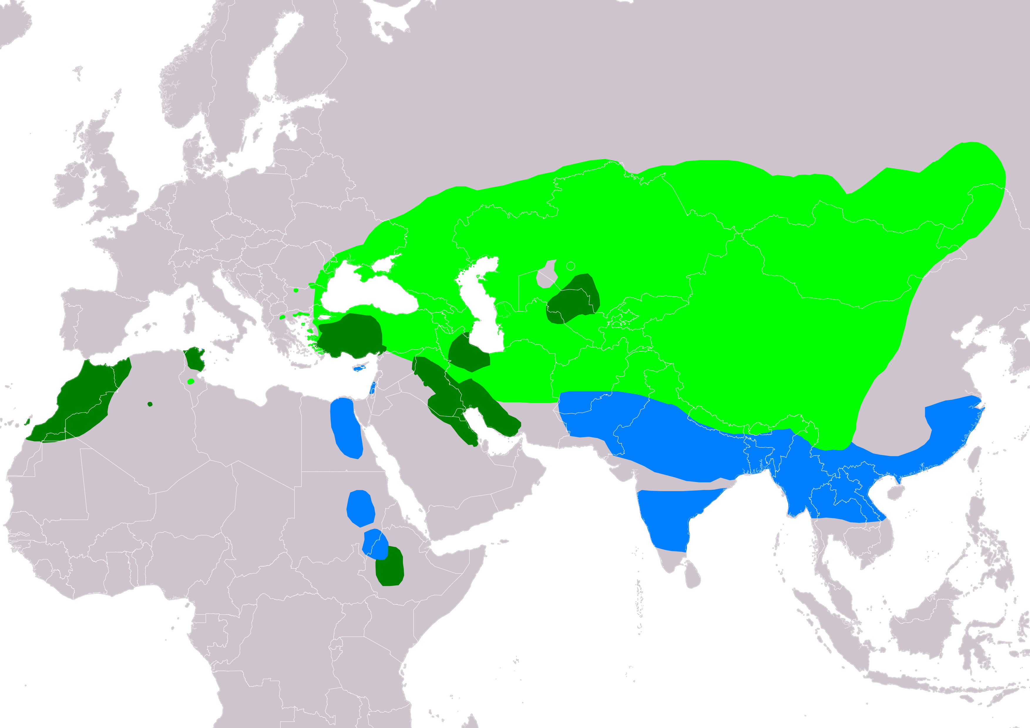 Distribution map of ruddy shelduck (Tadorna ferruginea) according to IUCN version 2020.1 (compiled by: BirdLife International and Handbook of the Birds of the World (2016) 2014.); key: Legend: Extant, breeding (#00FF00), Extant, resident (#008000), Extant, non-breeding (#007FFF)